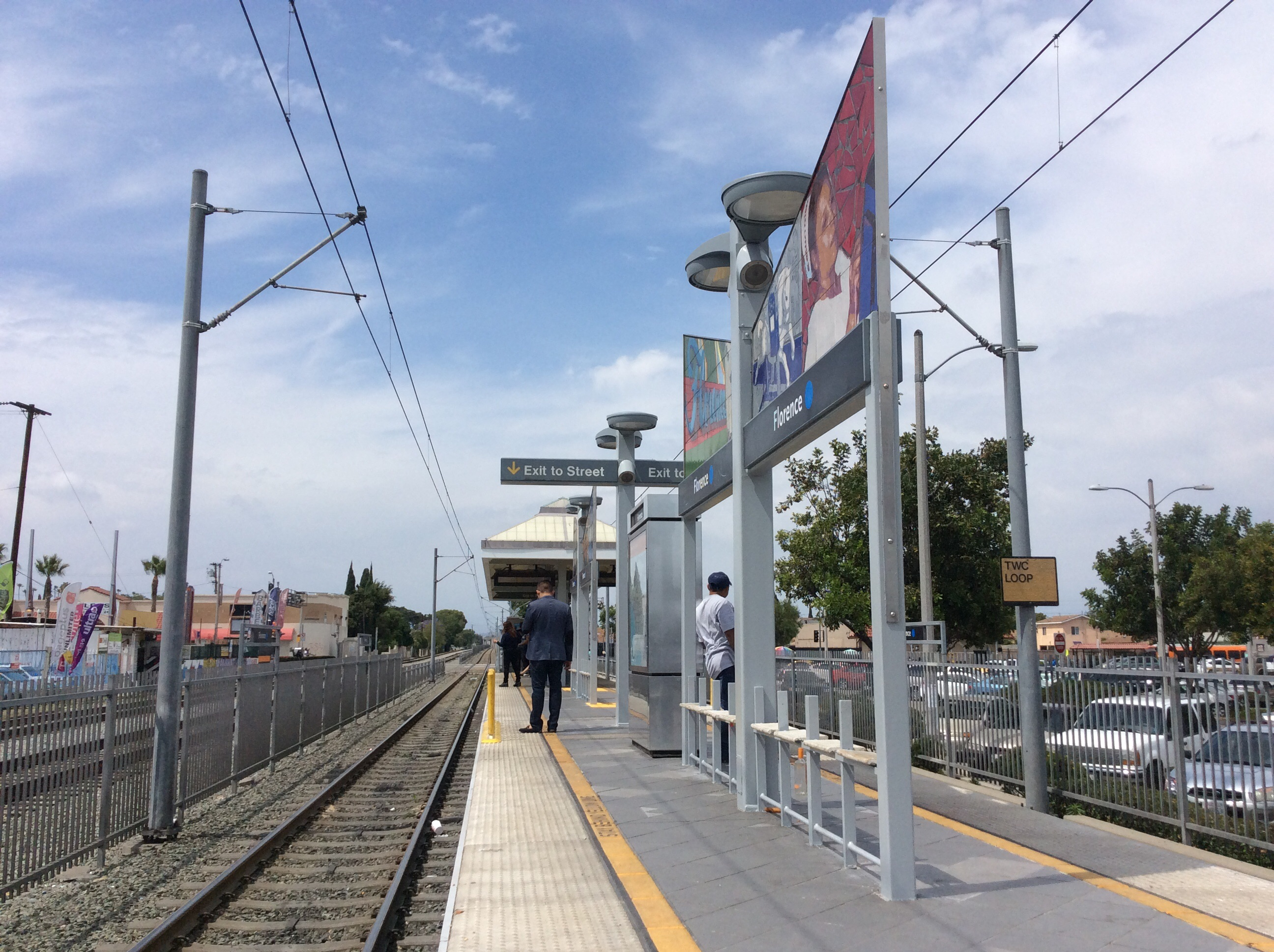 The platform view of Florence Station.